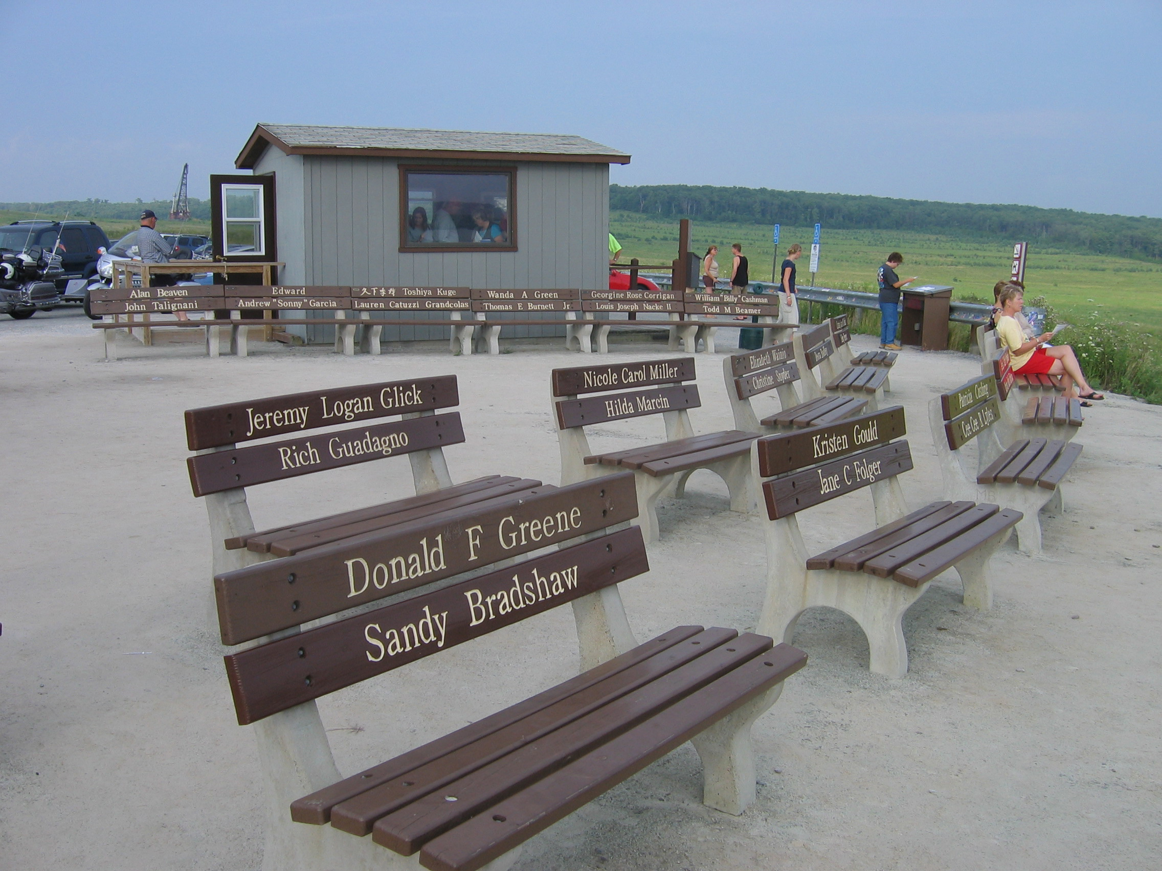 Flight 93 National Memorial in Somerset County, Pennsylvania (near Shanksville) Photo by AudeVivere (July 30, 2006)